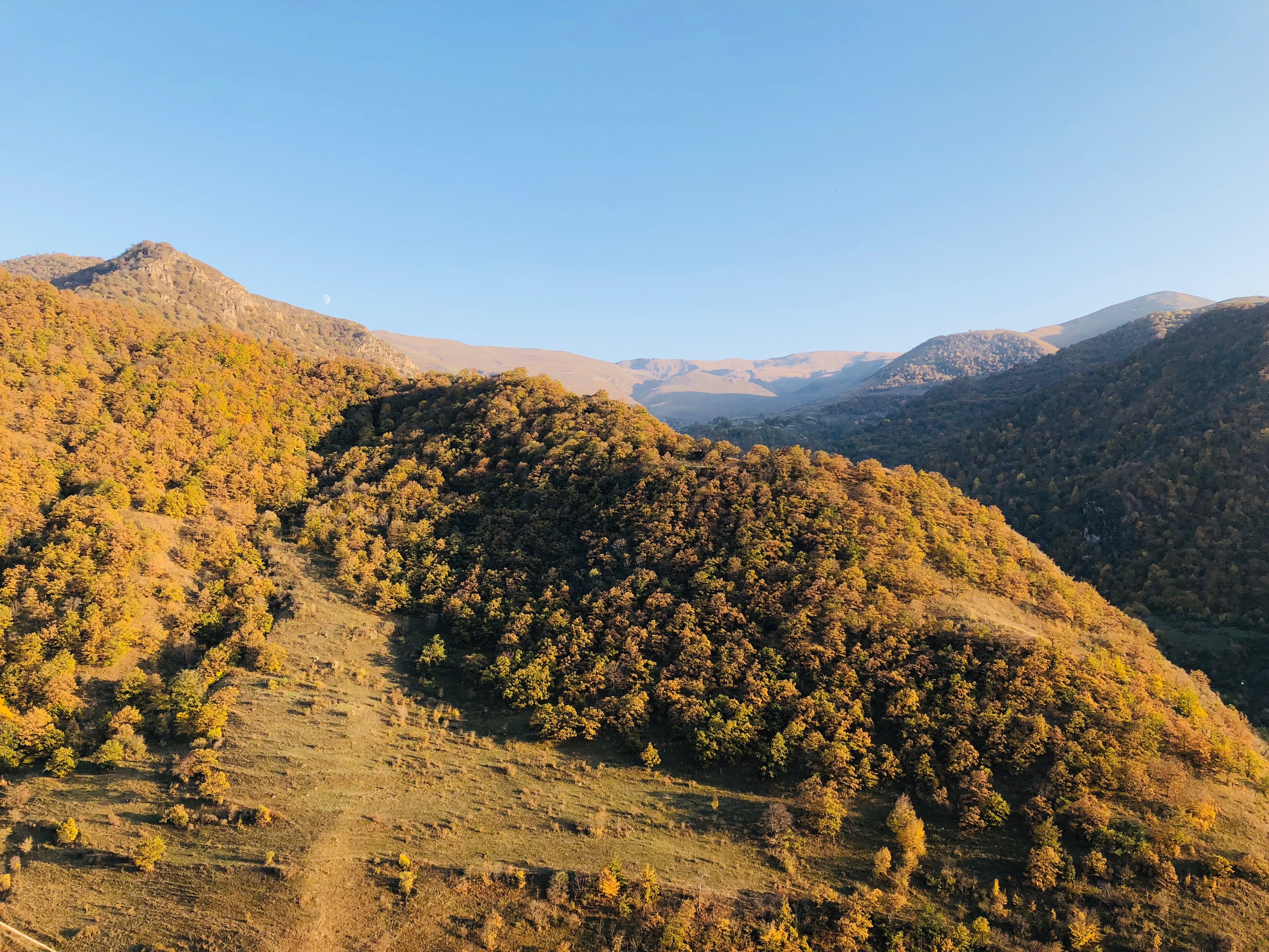 Nature of Karvachar, Artsakh